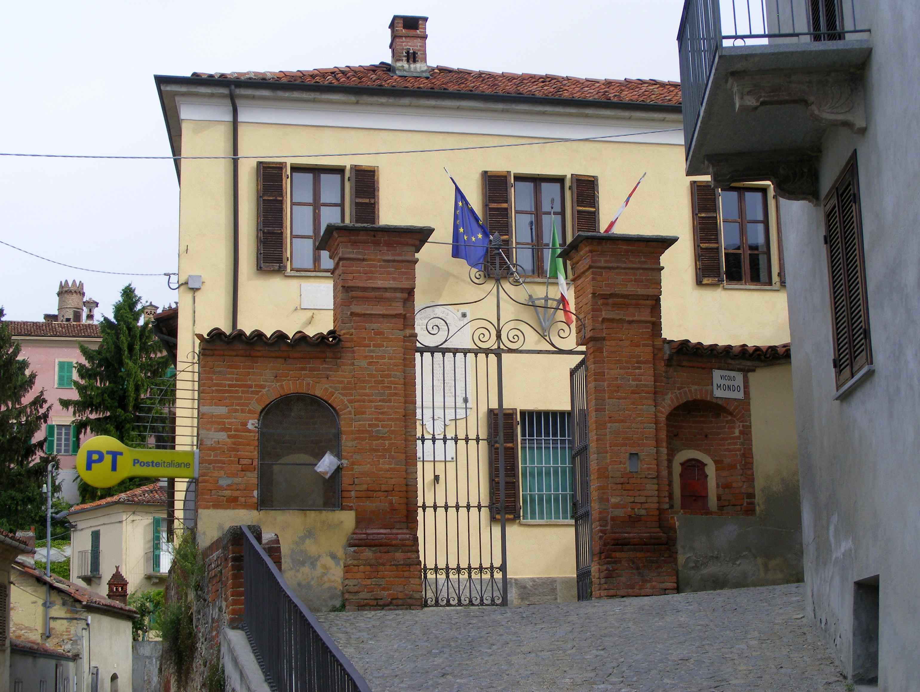 Pino d'Asti (AT, Italy): town hall